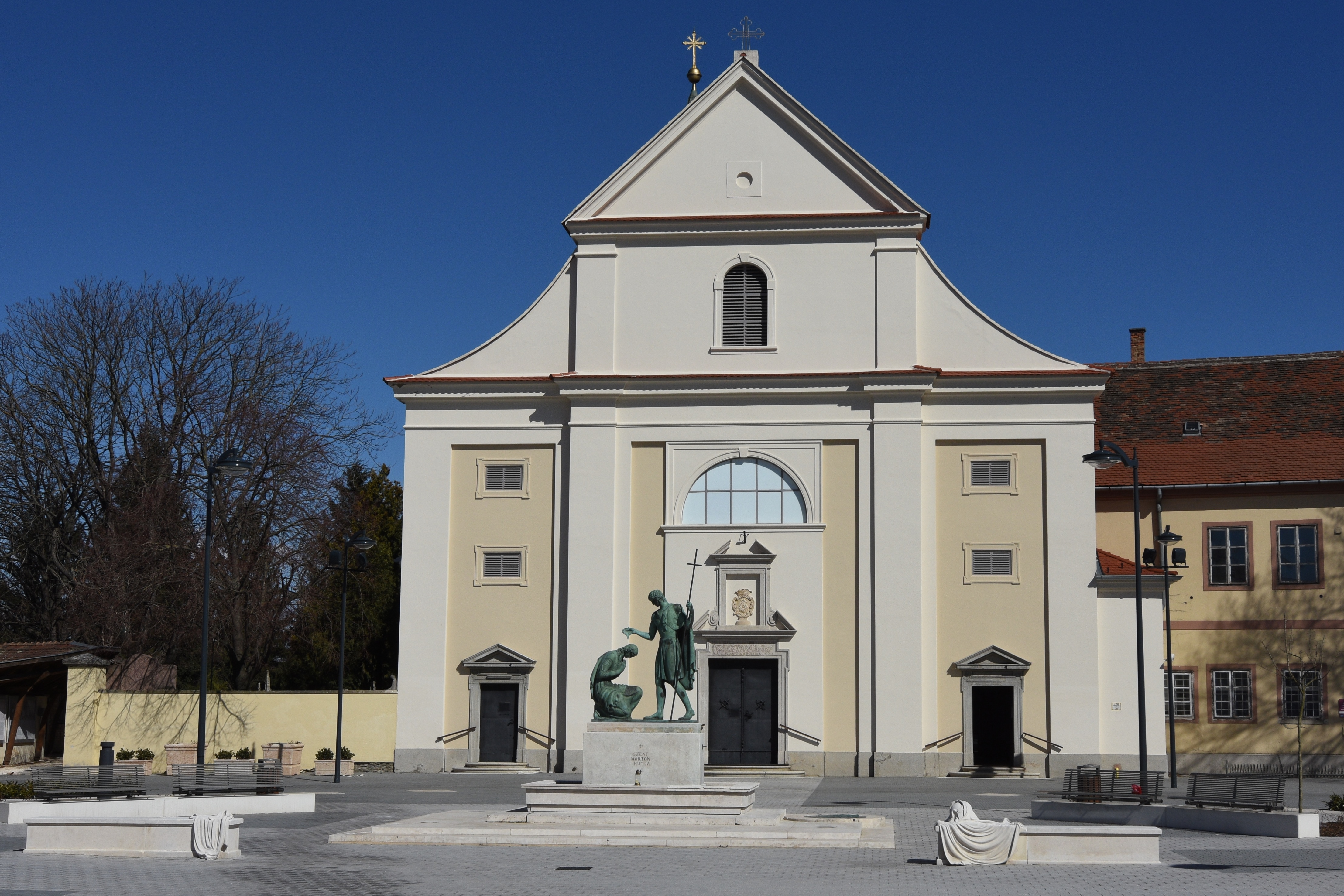 Statues of Saint Martin, Dominican church, Szombathely